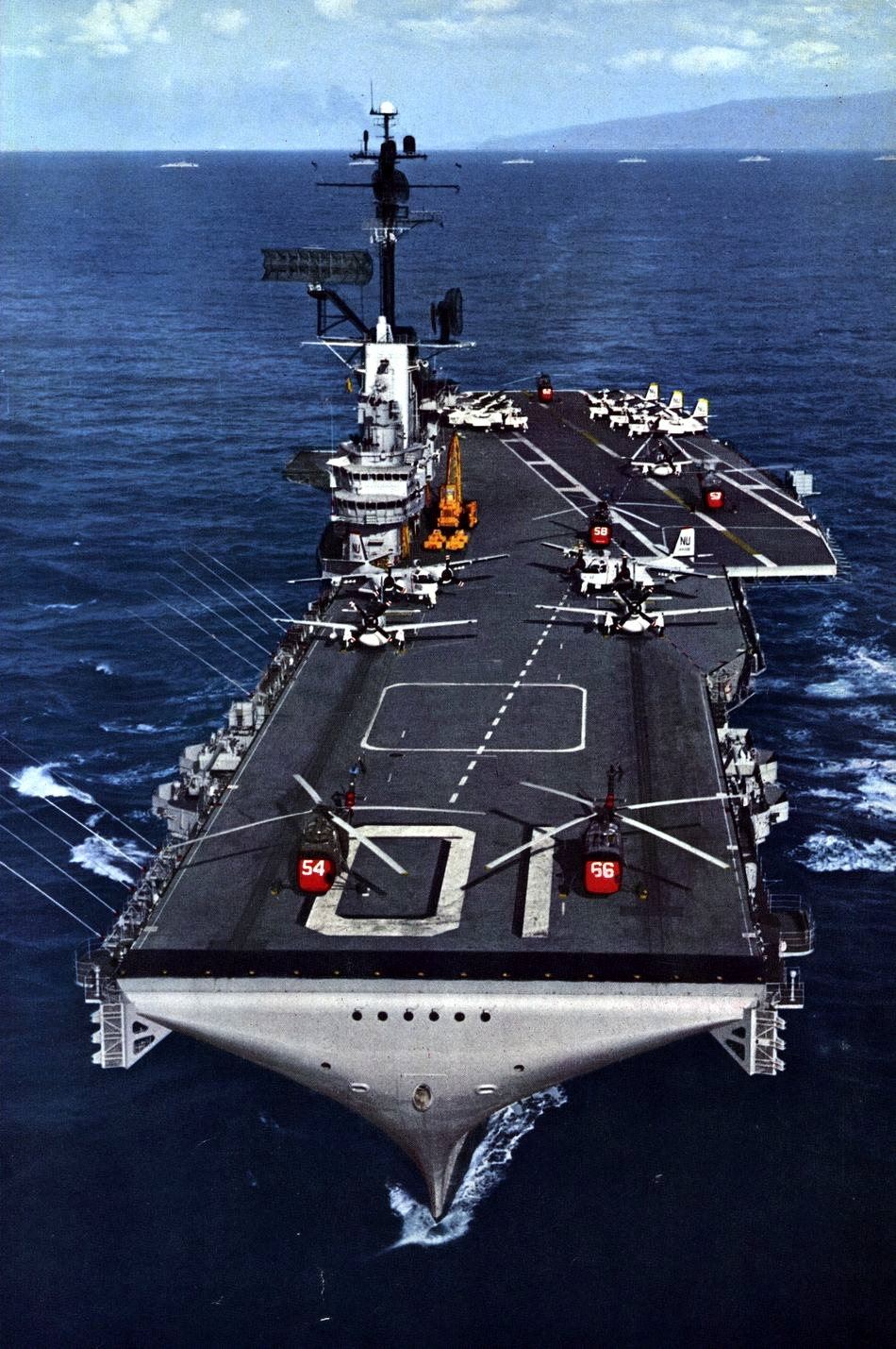 The U.S. Navy aircraft carrier USS Yorktown (CVS-10) underway. Yorktown, with assigned Carrier Anti-Submarine Air Group 55 (CVSG-55), was deployed to the Western Pacific from 26 October 1962 to 18 June 1963.